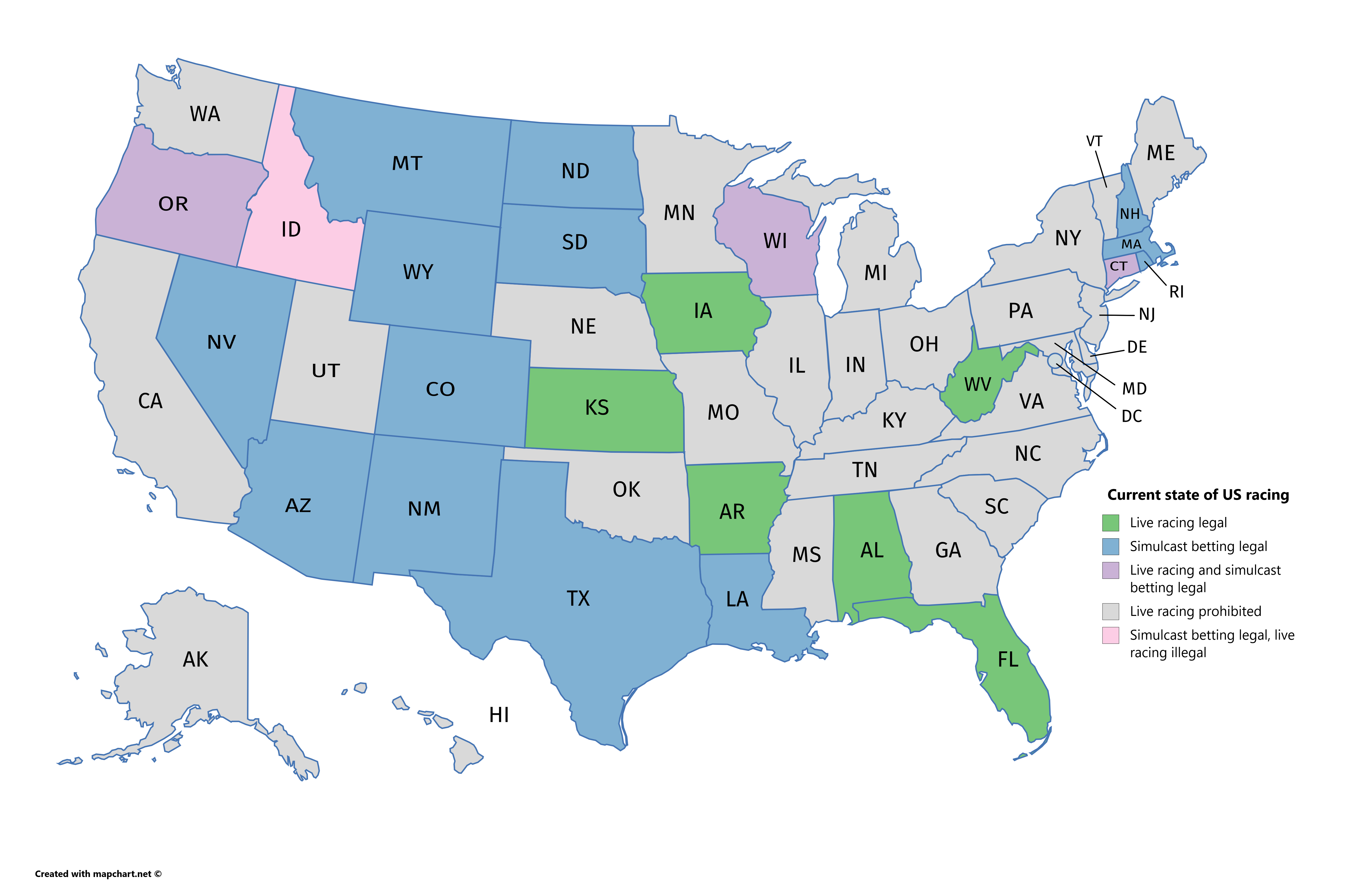 Greyhound Racing